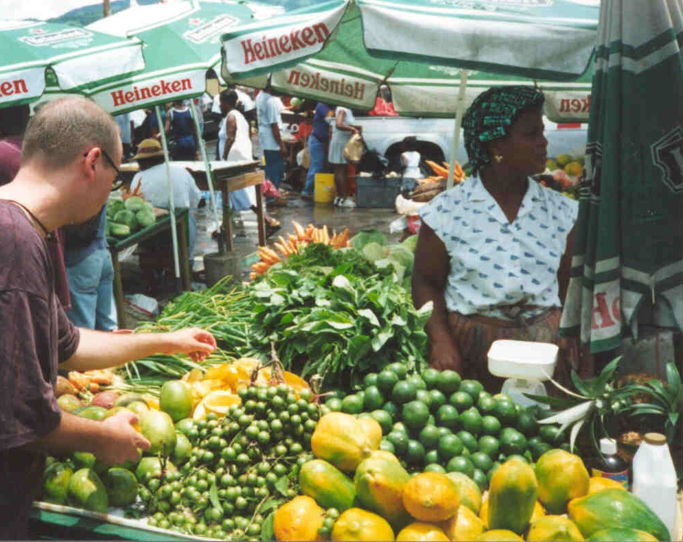 Author: Martin Mullan took this photo Location: Roseau, Dominica, Lesser Antilles Image is of the market in Roseau